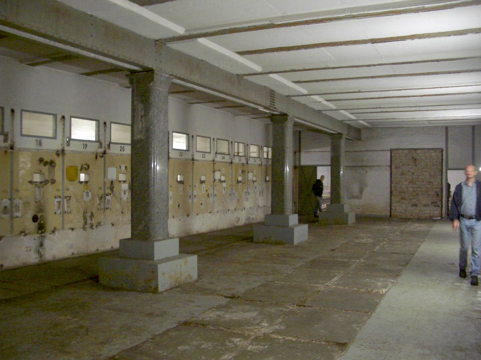 The un-used underground station Oranienplatz in Berlin, Germany